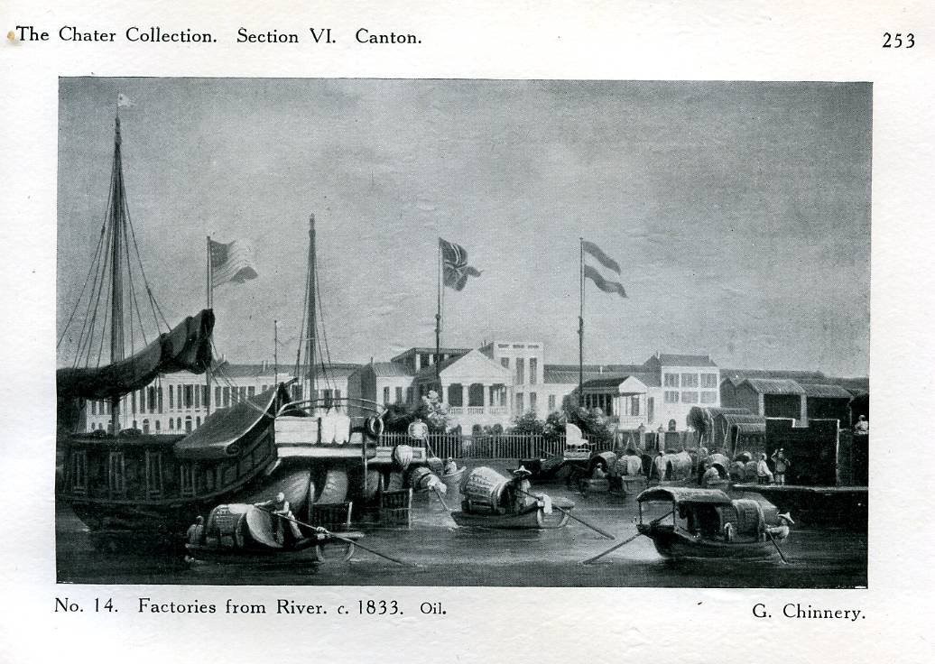 Factories from river.